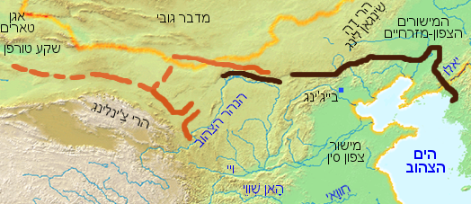 A map of the great wall of china of Han Dynasty